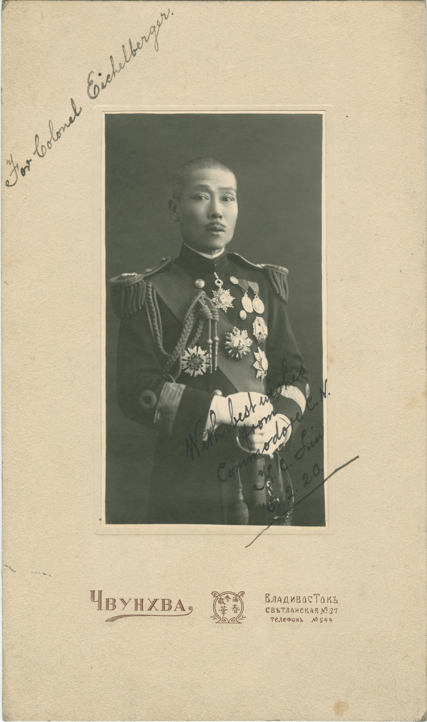 Studio portrait of a man in decorated uniform: Commodor C. N. - K. C. Lin (from Robert L. Eichelberger Papers)